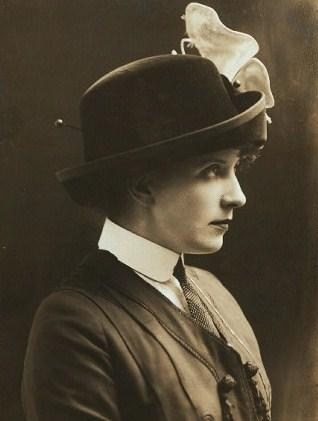 Cecil Cunningham in The Pink Lady, Detroit Opera House, Detroit, Michigan (original image damaged, cropped : see source)